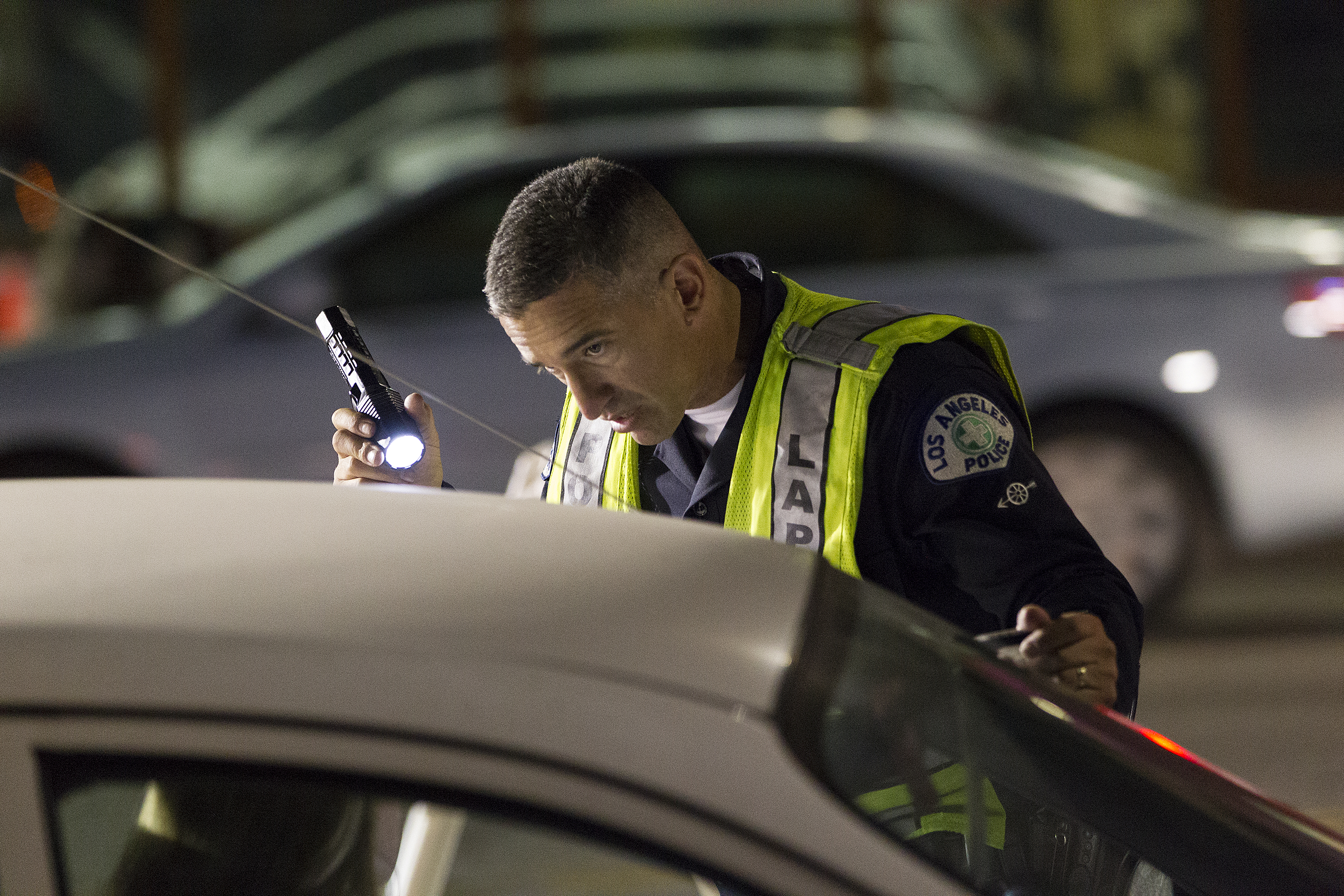 An officer with the Los Angeles Police Department checks the sobriety of a driver in Hollywood over the Memorial Day weekend.